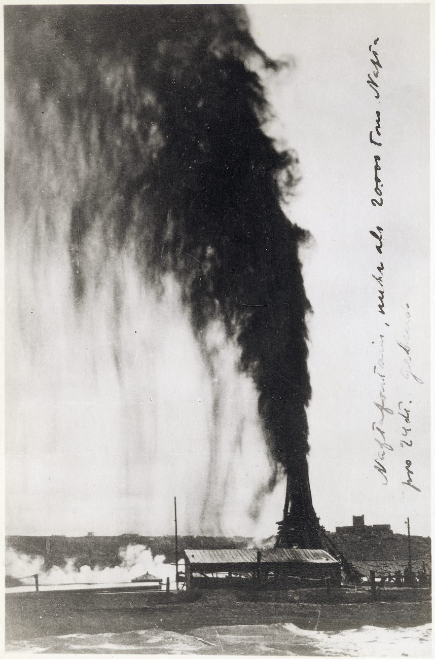 B17732. A "bridled" Baku fountain of 20,000 tons a day.